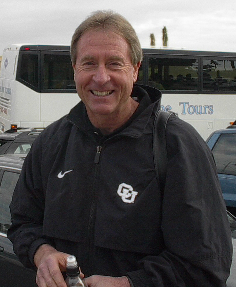 Gary Barnett at the team hotel before the 2002 (2001 Season) Fiesta Bowl, cropped from Image:Barnett_at_Fiesta_Bowl.jpg